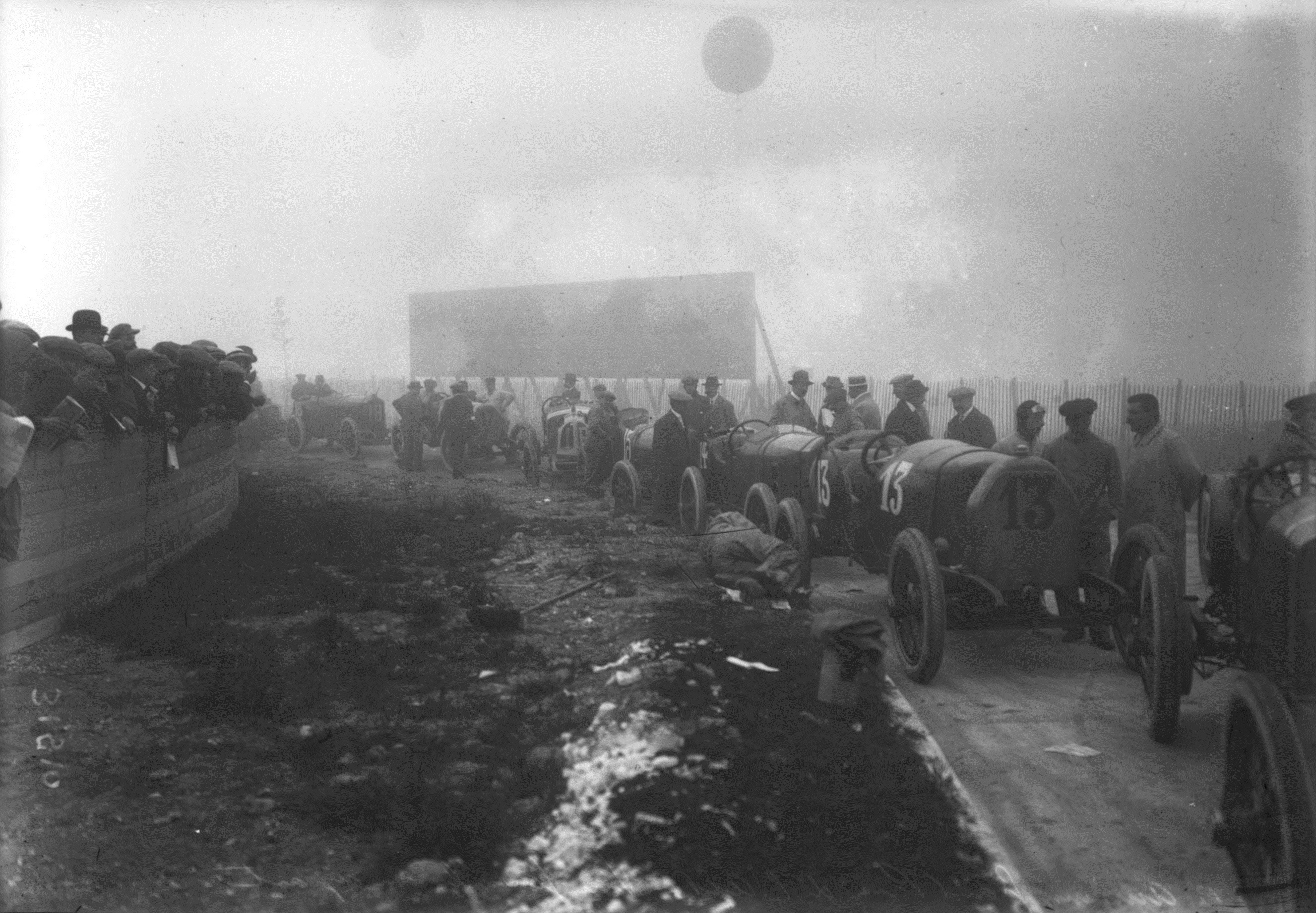 Grid at the 1913 French Grand Prix